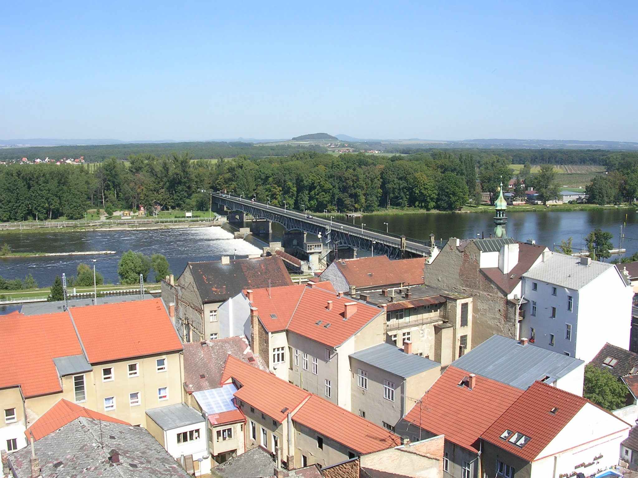 Roudnice nad Labem, Ústí nad Labem Region, the Czech Republic.